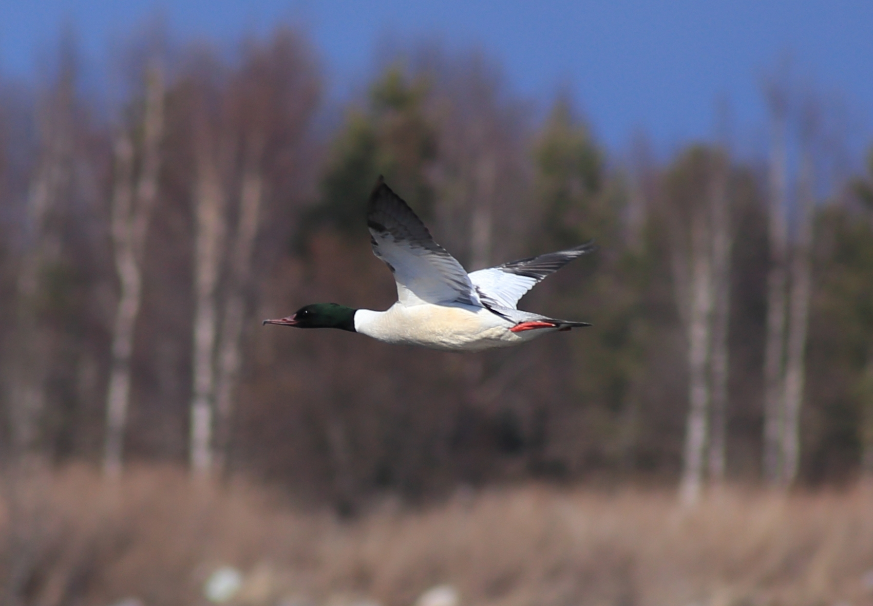 A male goosander (Mergus merganser) in flight at the Toppilansaari island in Oulu.